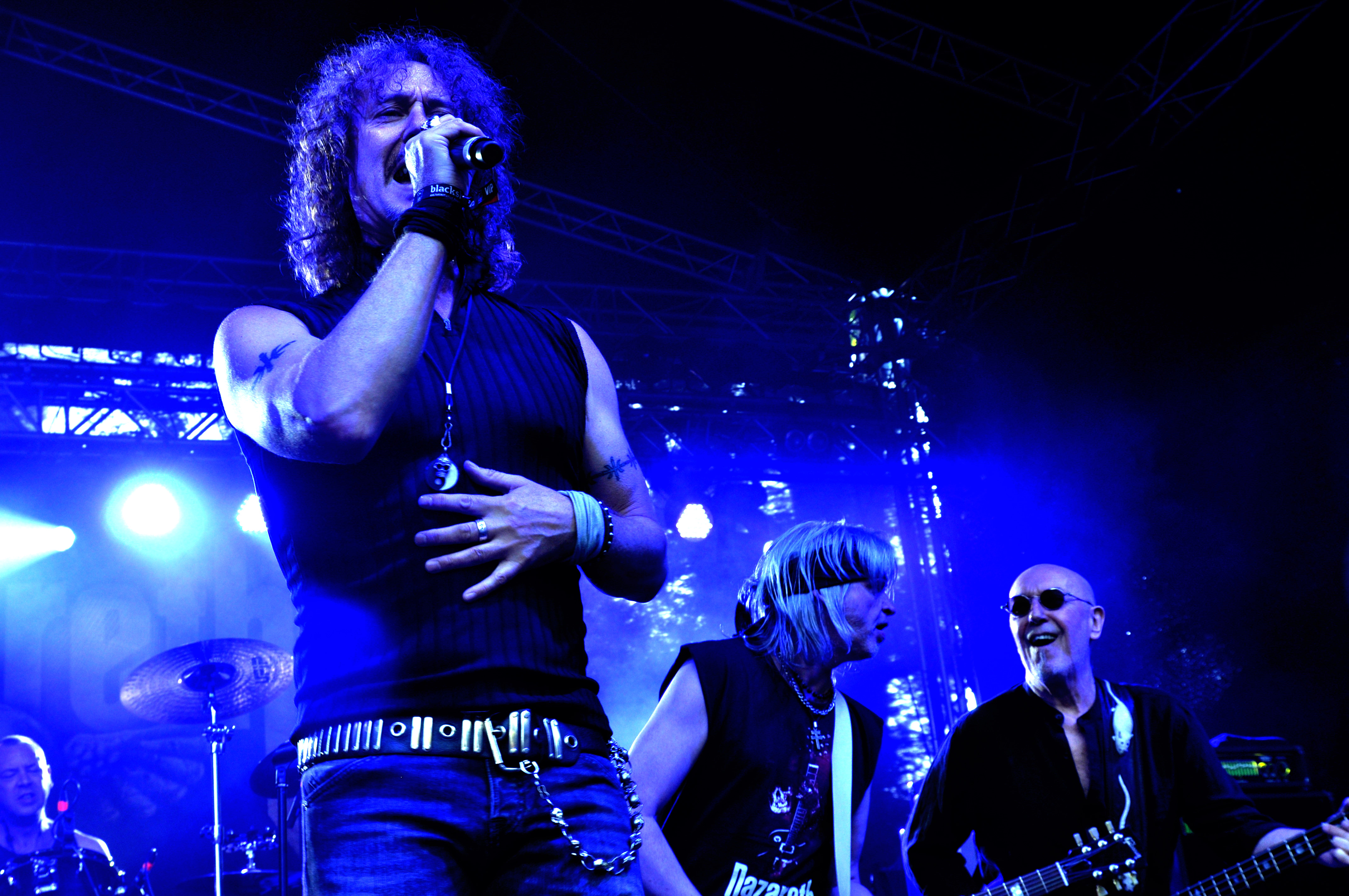 Nazareth (GBR) appearance at the 2017 blacksheep festival at Bonfeld castle, Bad Rappenau, Baden-Wuerttemberg, Germany Festivalsommer This photo was created with the support of donations to Wikimedia Deutschland in the context of the CPB project "Festival Summer".